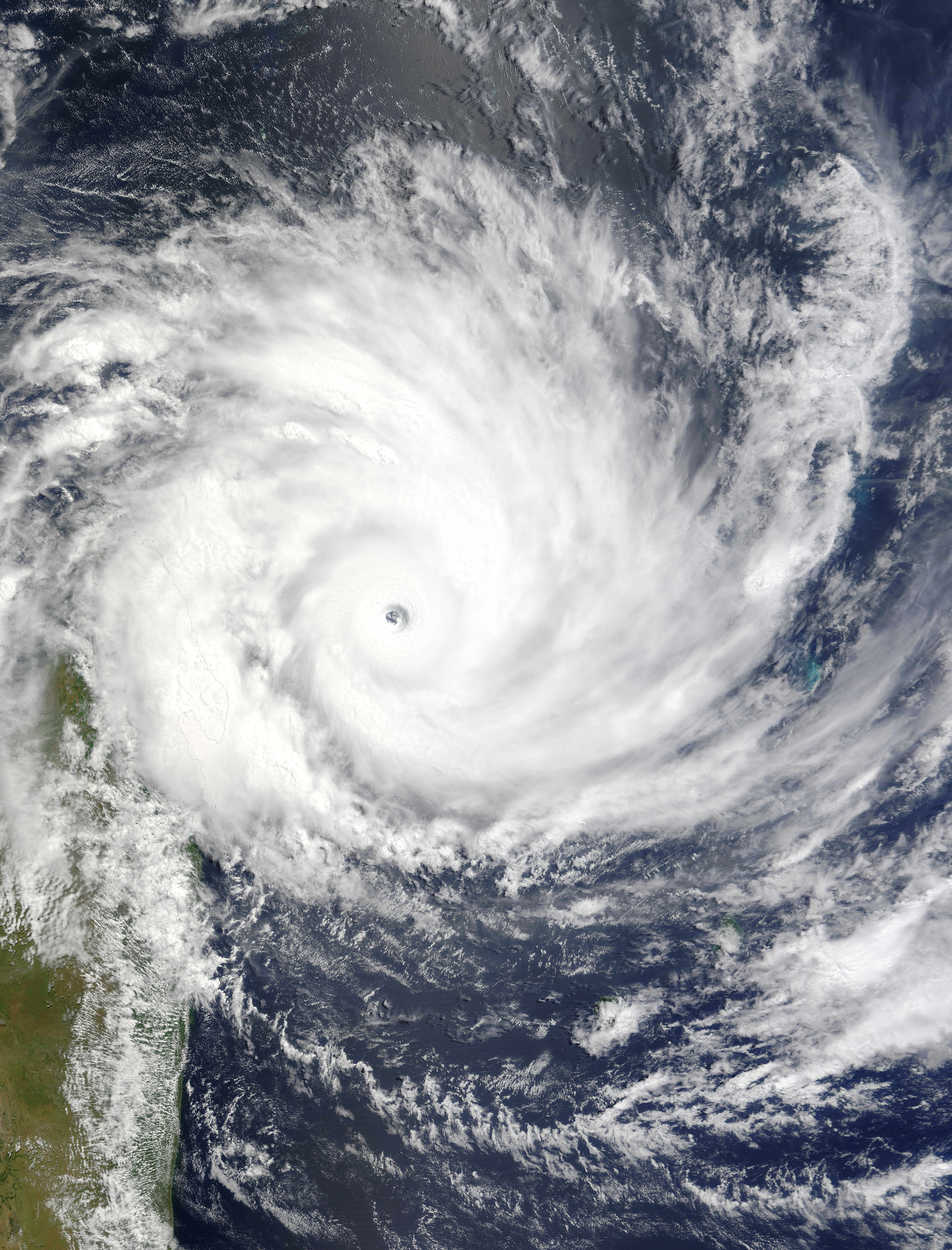 On March 6, 2004, Very Intense Tropical Cyclone Gafilo approached Madagascar. The system soon became the most intense tropical cyclone in the South-West Indian Ocean on record, before making landfall over Madagascar early on March 7. This image was taken by the Moderate Resolution Imaging Spectroradiometer (MODIS) on NASA’s Terra satellite at 06:55 UTC on March 6, 2004.